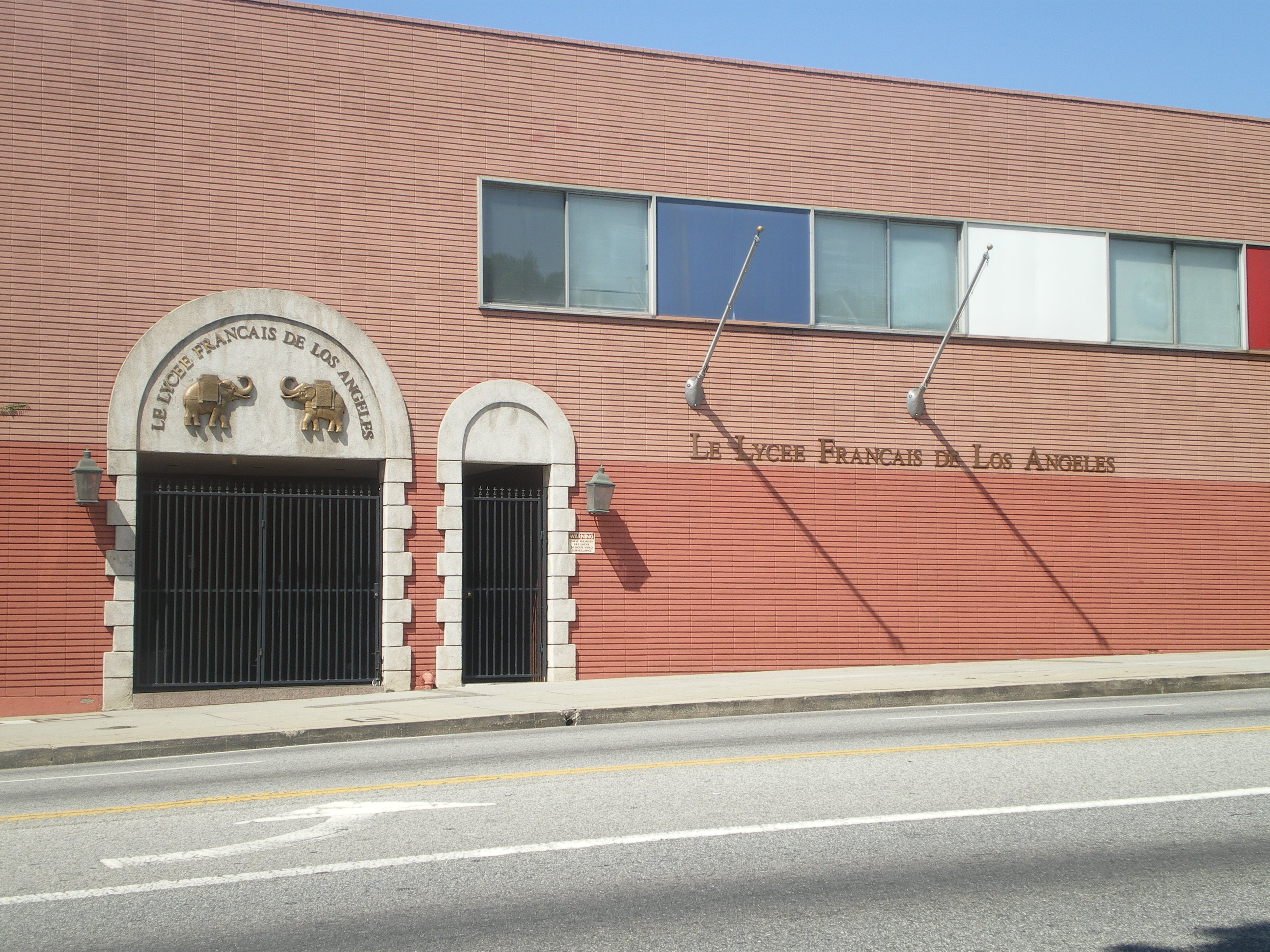 Lycée Français de Los Angeles Century City Campus, 10361 West Pico Boulevard Los Angeles, CA 90064